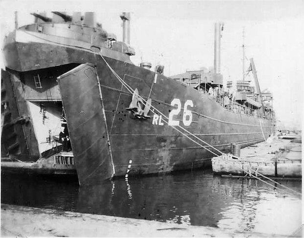 USS Stentor (ARL-26) moored pierside, date and place unknown.